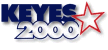 Alan Keyes presidential campaign, 2000